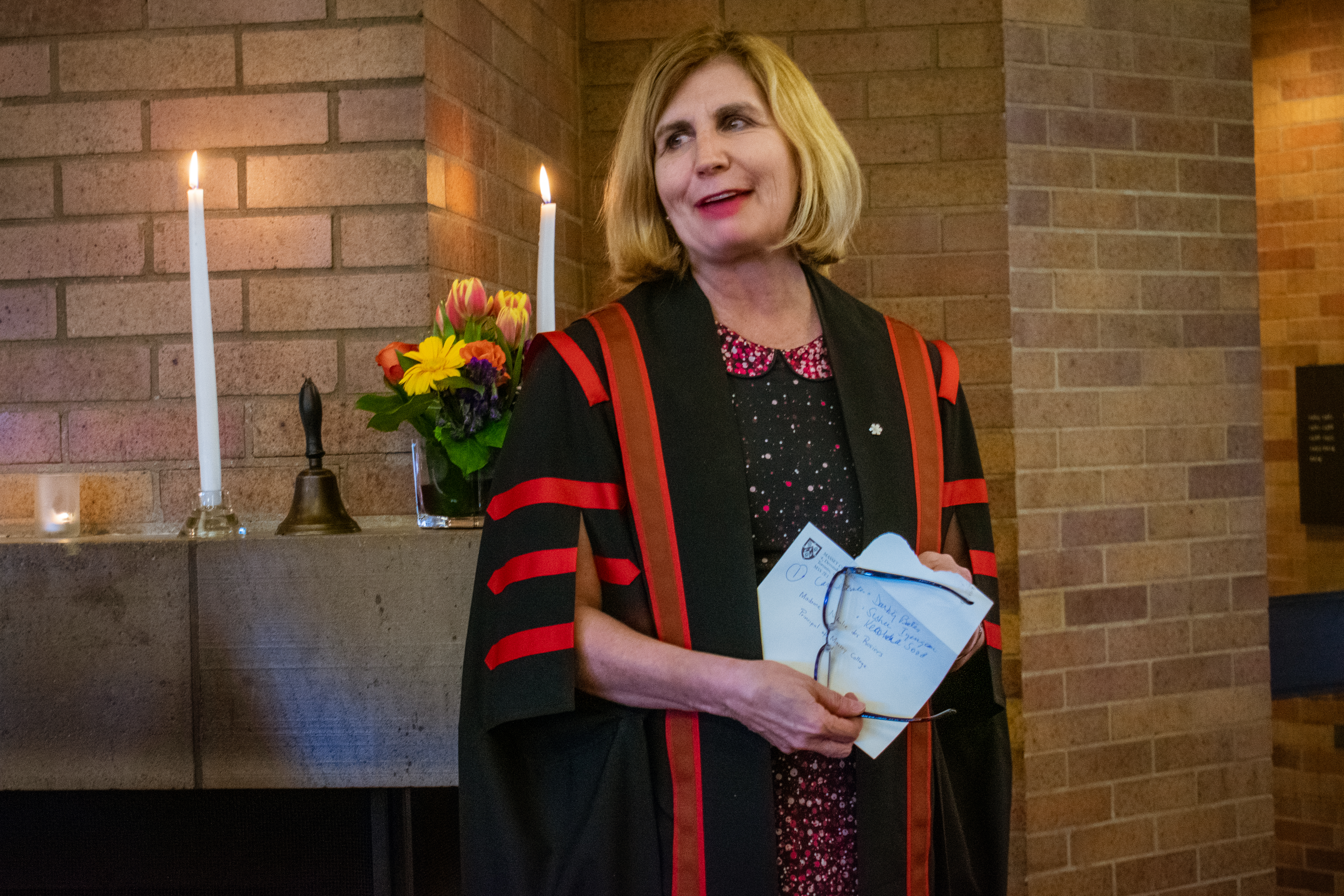 Principal Des Rosiers announcing the results of the 2020/21 Don of Hall election.